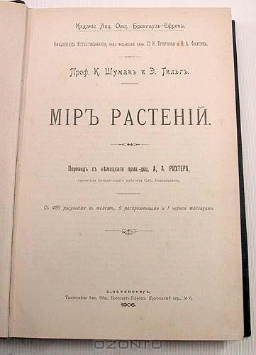 “Das Pflanzenreich” (translation in Russian). Sankt Petersburg, 1906